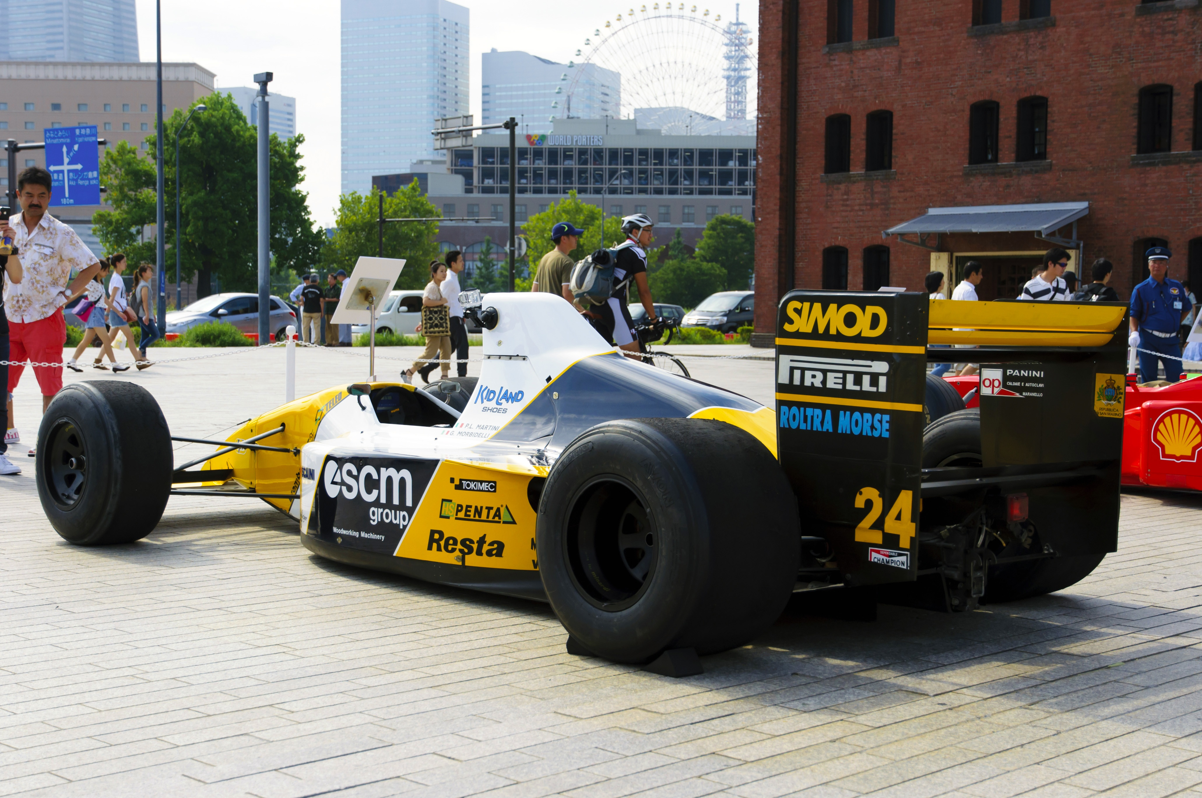 Minardi M190 [1990]